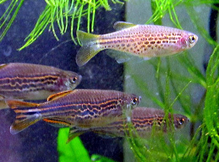 Photo of two colour morphs of Danio kyathit, spotted form known as Ocelot Danio and striped form known as Orange Finned Danio